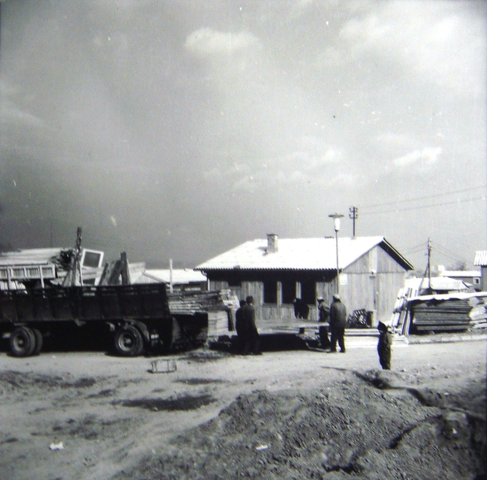 1963 Skopje earthquake: Construction of settlement Vodno, 1964 This media file is produced by Wikipedian in Residence in Category:Wikipedian in Residence at DARM in 2016.